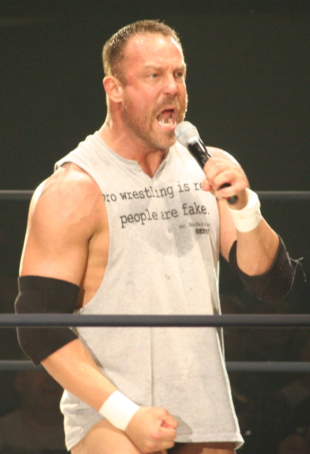 Mr Anderson at Bound for Glory in 2015.